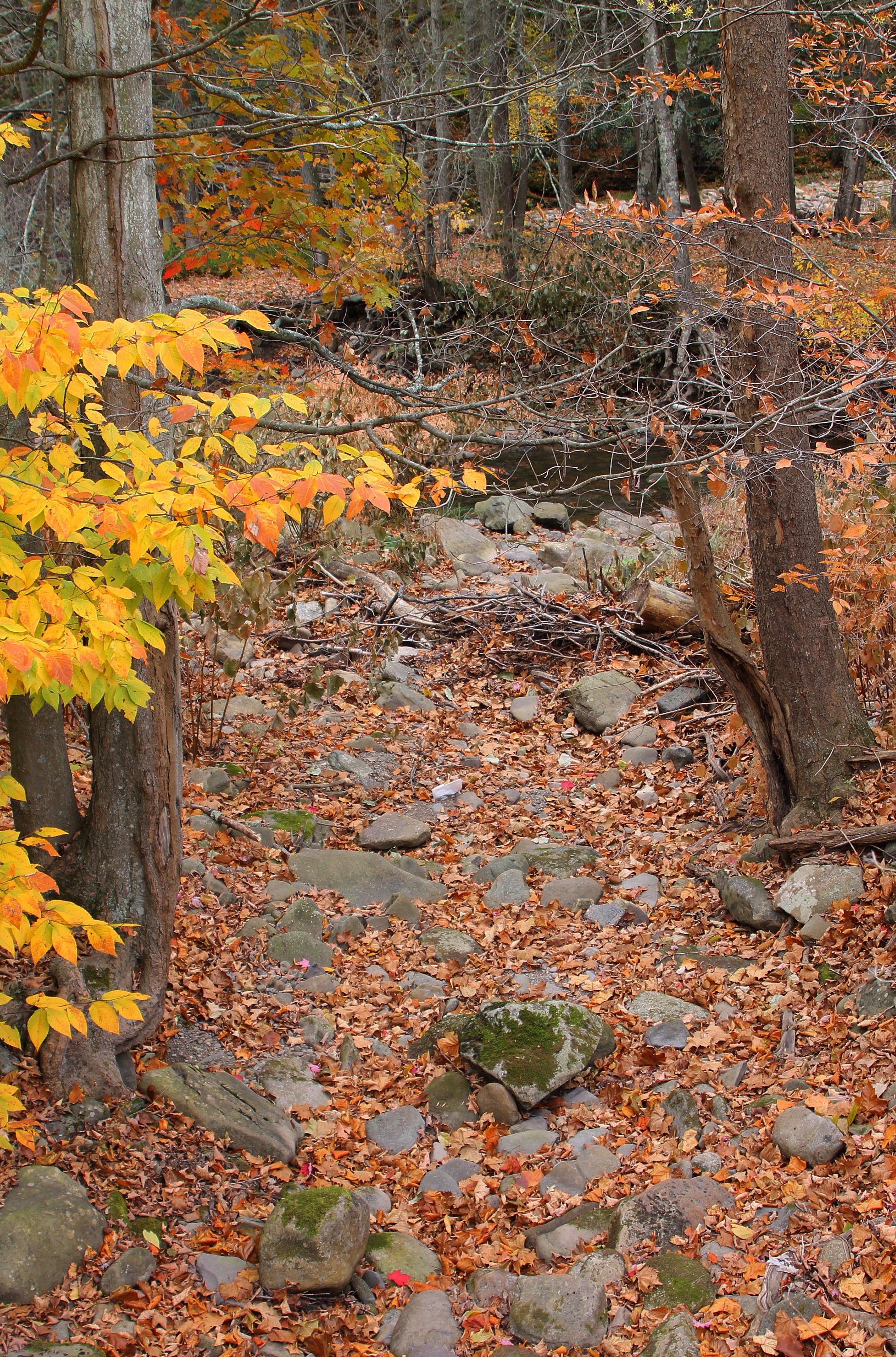 Hettesheimer Run in fall foliage and low flow conditions, near its mouth